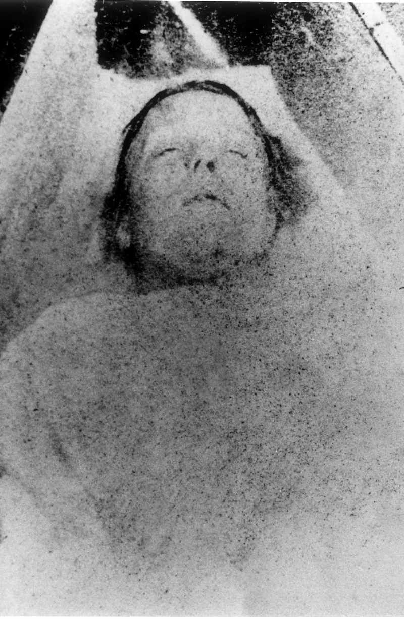 Victorian mortuary photograph of murder victim Mary Ann Nichols